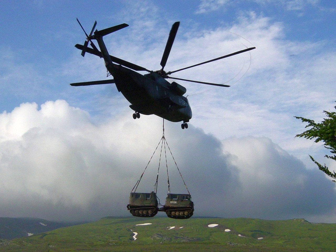 The German Army Sikorsky CH-53G lift a Bv206D.